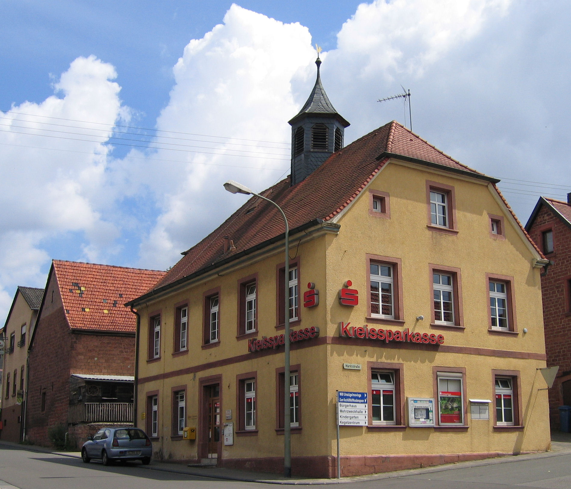 view of Sembach, Germany